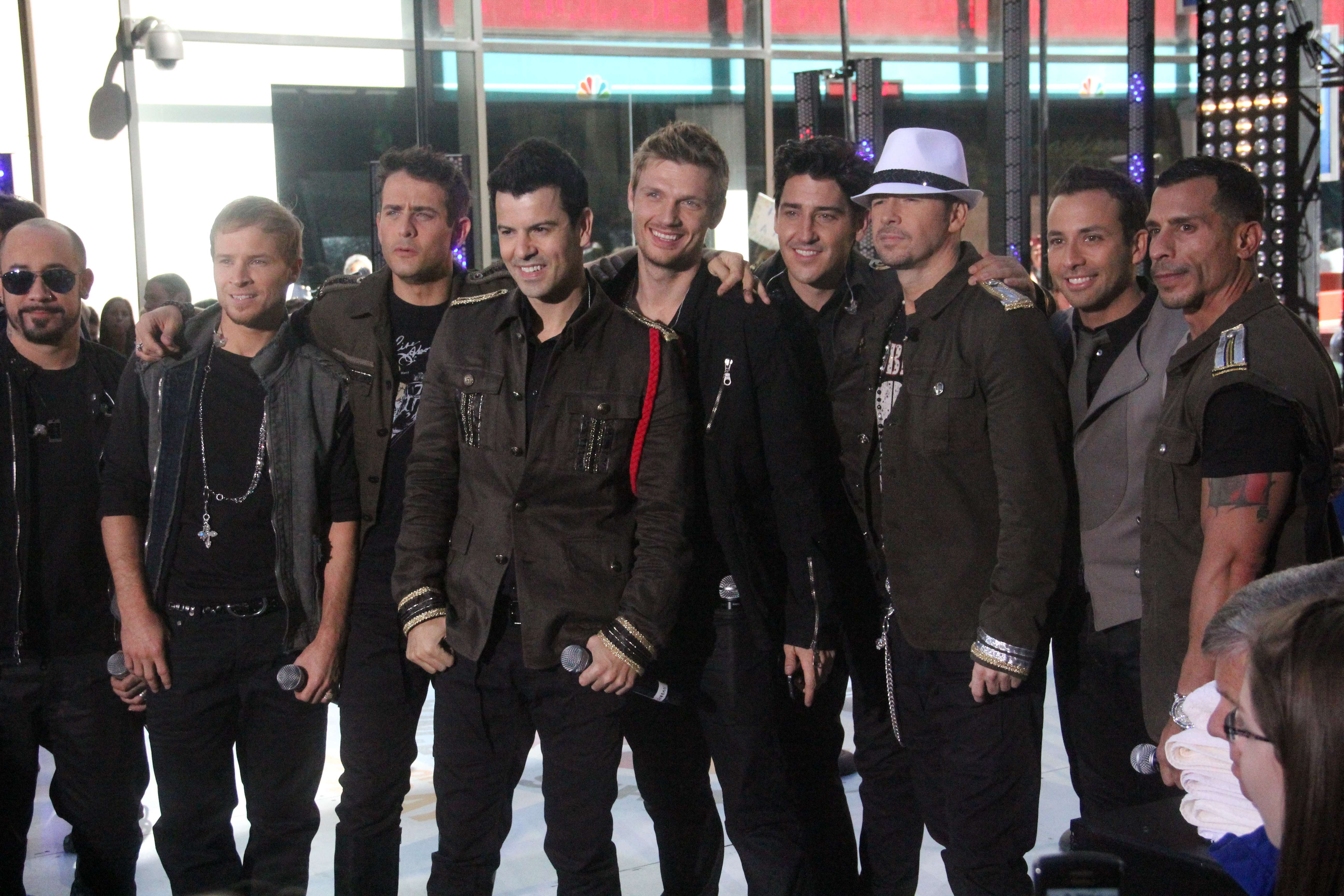 Backstreet Boys and New Kids on the Block at the The Today Show in New York City in June 2011